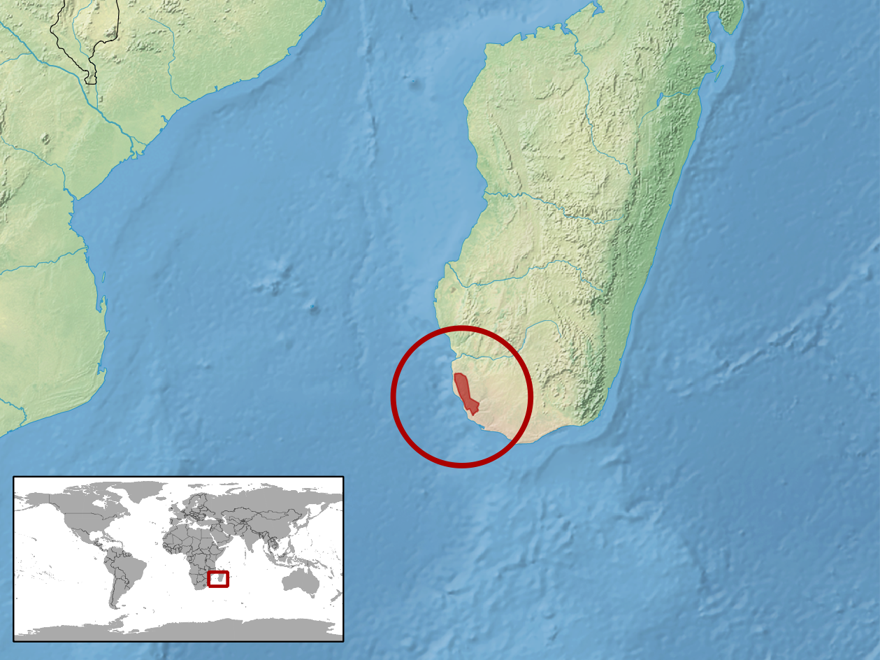 geographic distribution of Ebenavia maintimainty (Native: Madagascar)